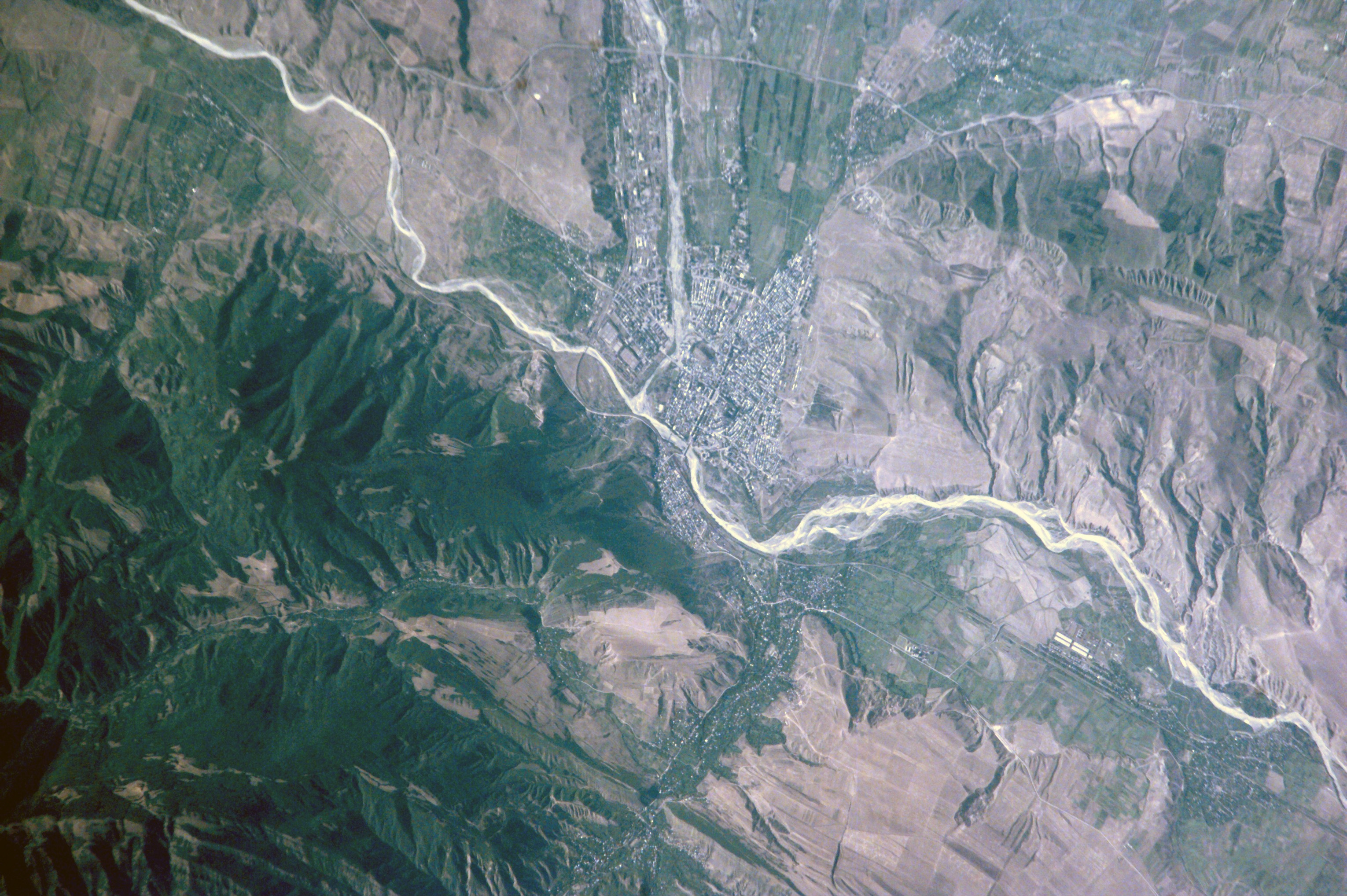 NASA satellite image of the town of Gori, Georgia